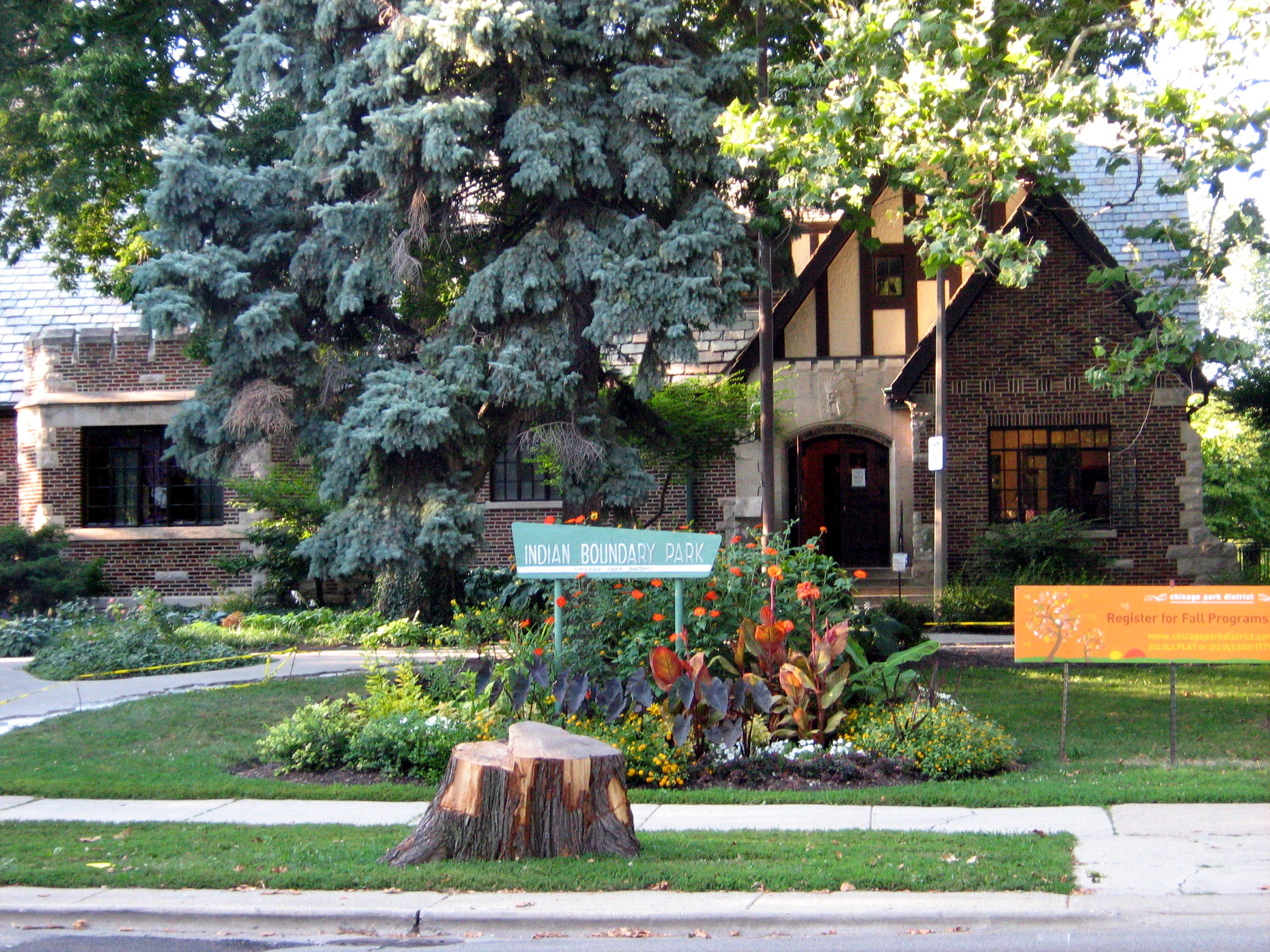 2500 W. Lunt Ave. Chicago, IL 60645